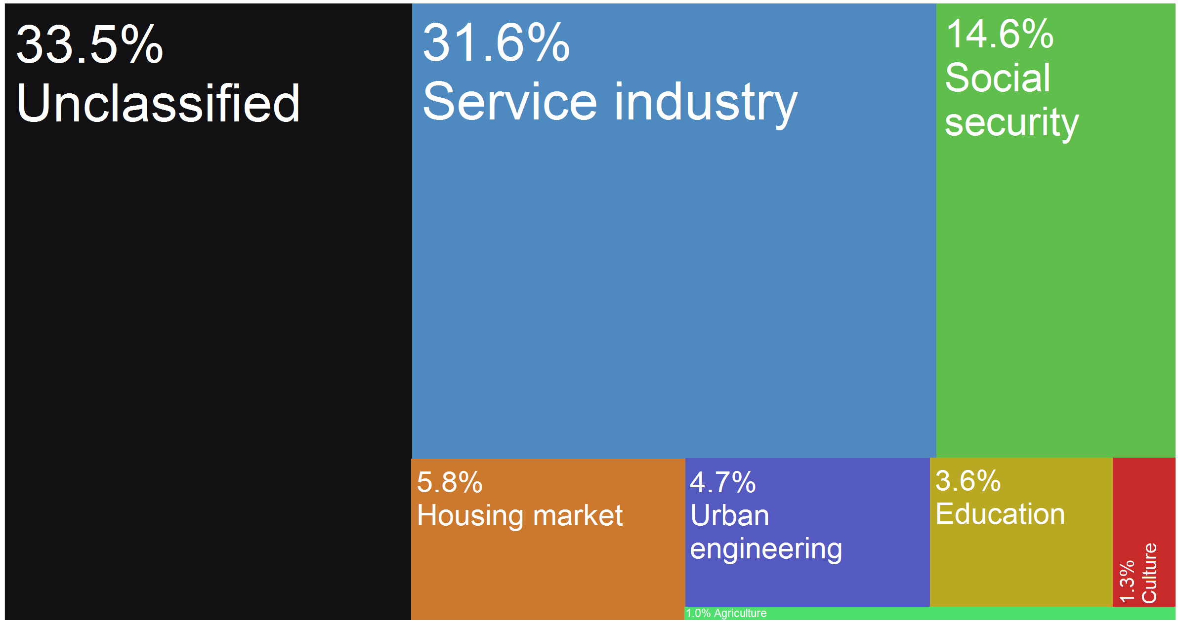 Diagram illustrating the city's budget sources.